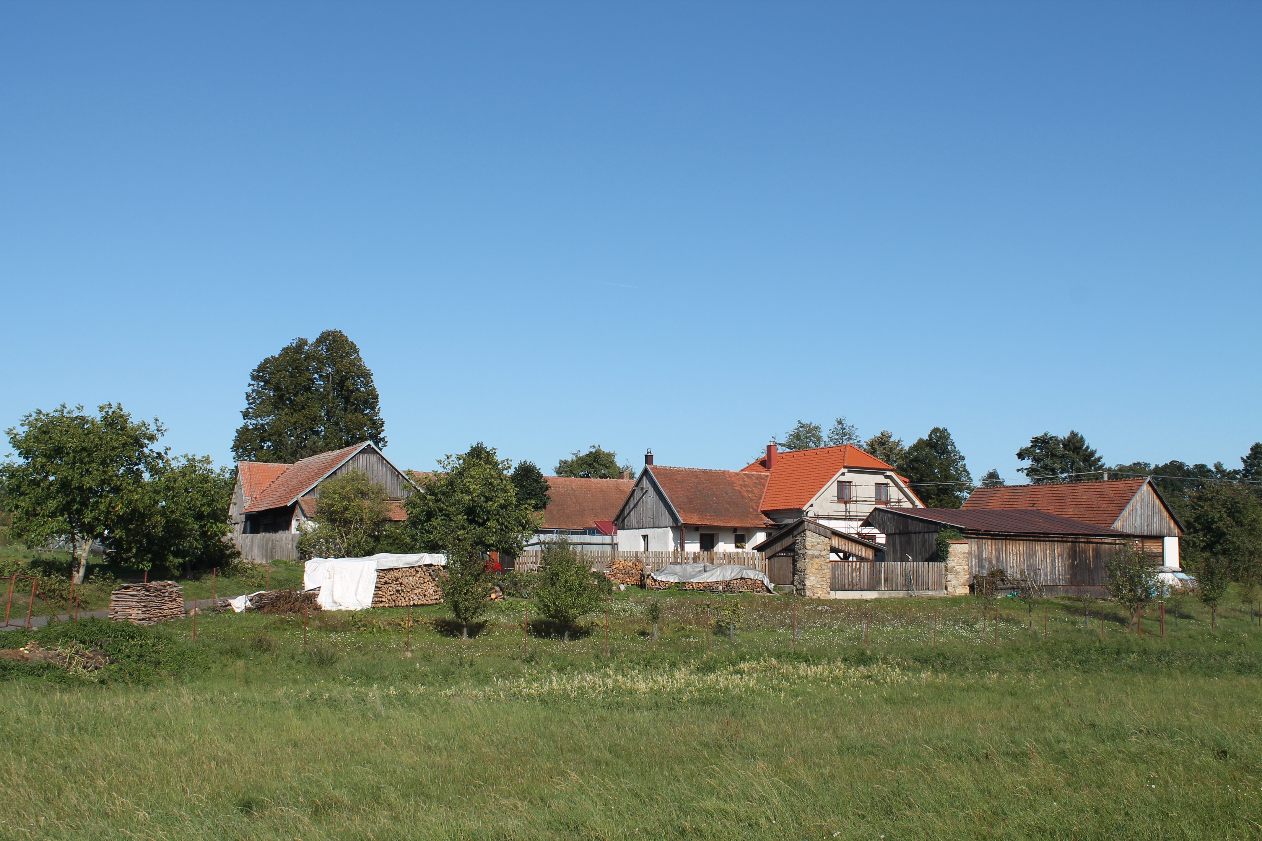 Dolní Hlíny, Horní Libochová, Žďár nad Sázavou District, Czech Republic